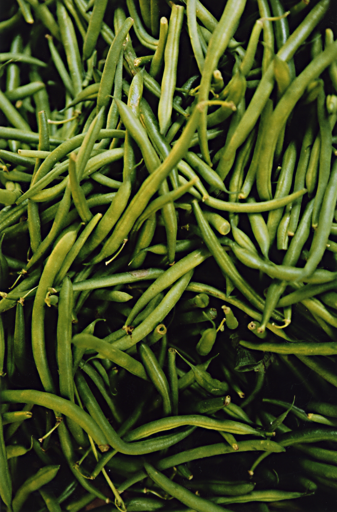 Green beans on film